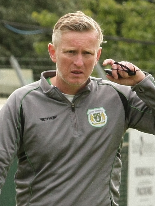 Terry Skiverton leads Yeovil training.